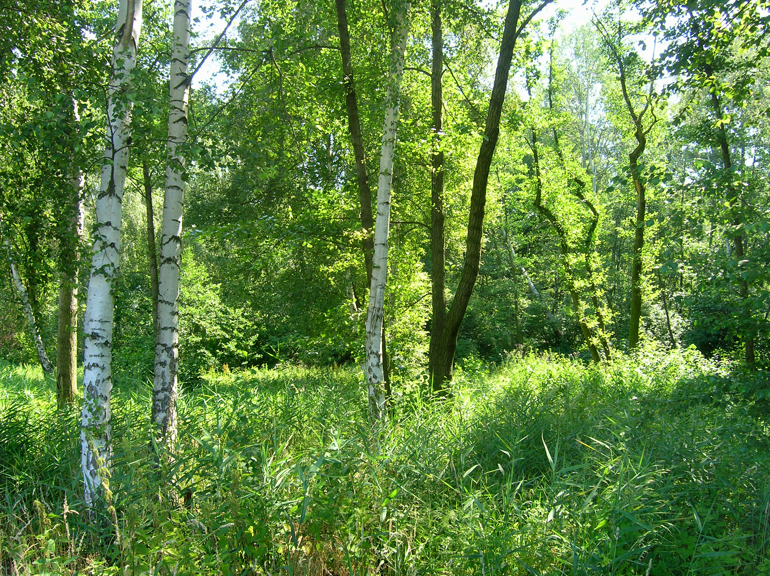 Slatiniště u Vrbky natural reserve, Czech Republic